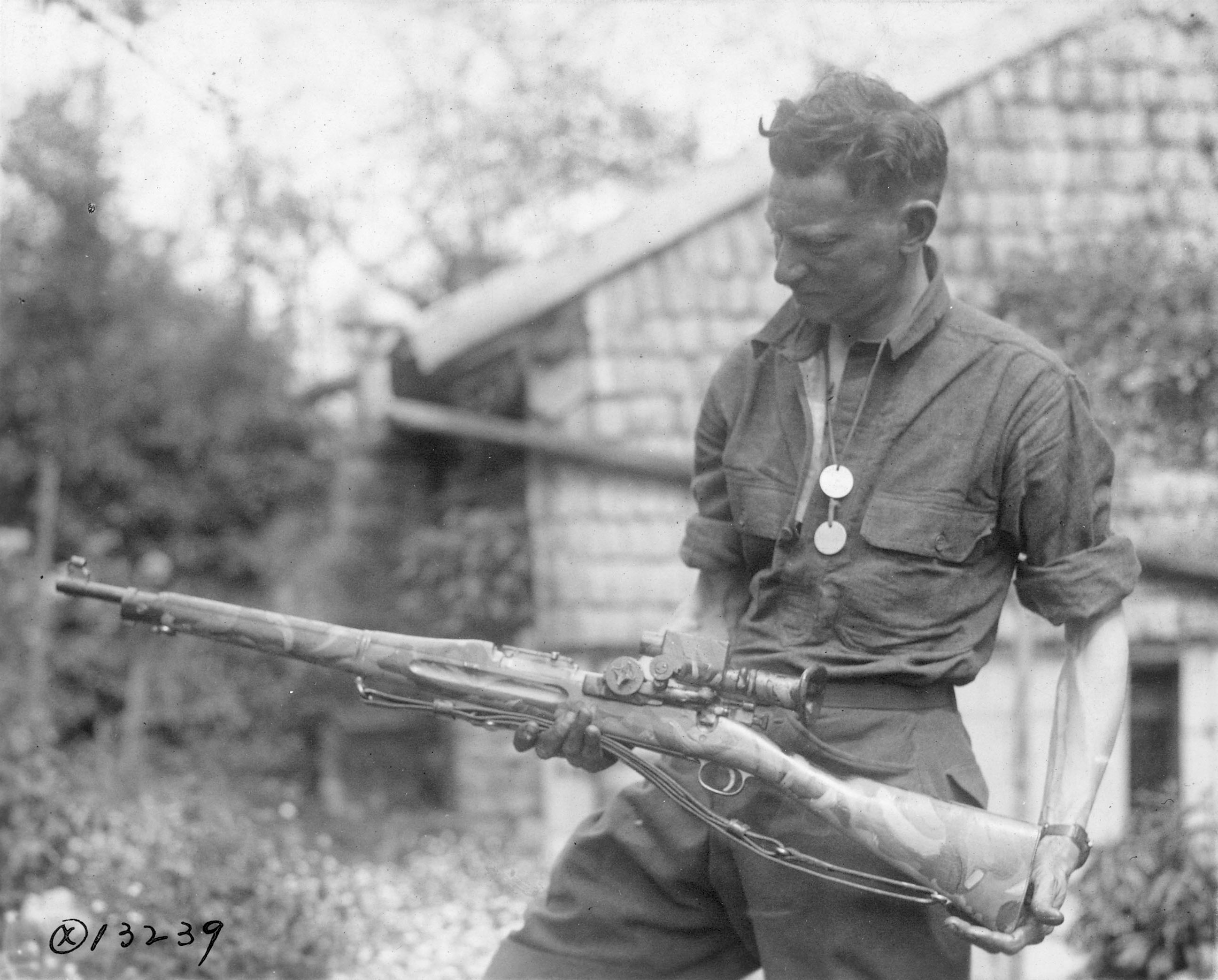 American First World War Official Exchange Collection Camouflaged Springfield Rifle with telescopic sight used by snipers, Badonviller, 18 May 1918